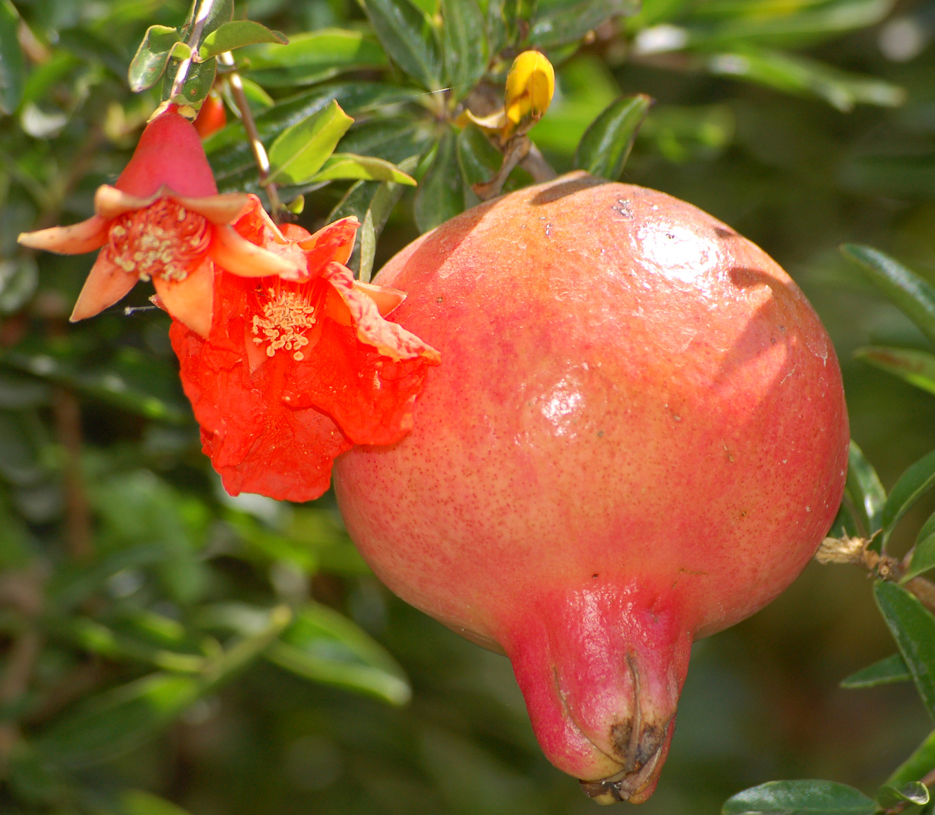 Pomegranate fruit & 2 flowers of different stage own photography